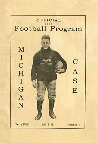 Michigan Wolverines Case Western Reserve Spartans football program October 7, 1916 Ann Arbor Cleveland Ferry Field Case School of Applied Science 19-3 John Maulbetsch of Michigan Other information John Maulbetsch of Michigan is the player in the photo